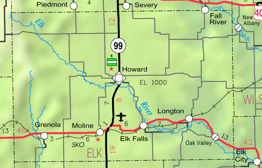 This map of Elk County, Kansas, USA, is copied at a resolution of 300 pixels/inch from the original PDF file.